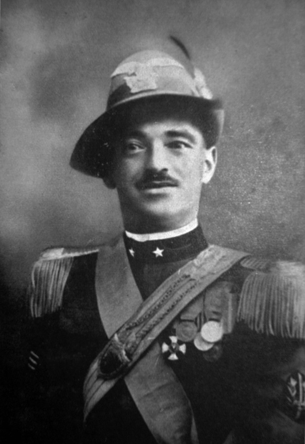 Picture of a soldier